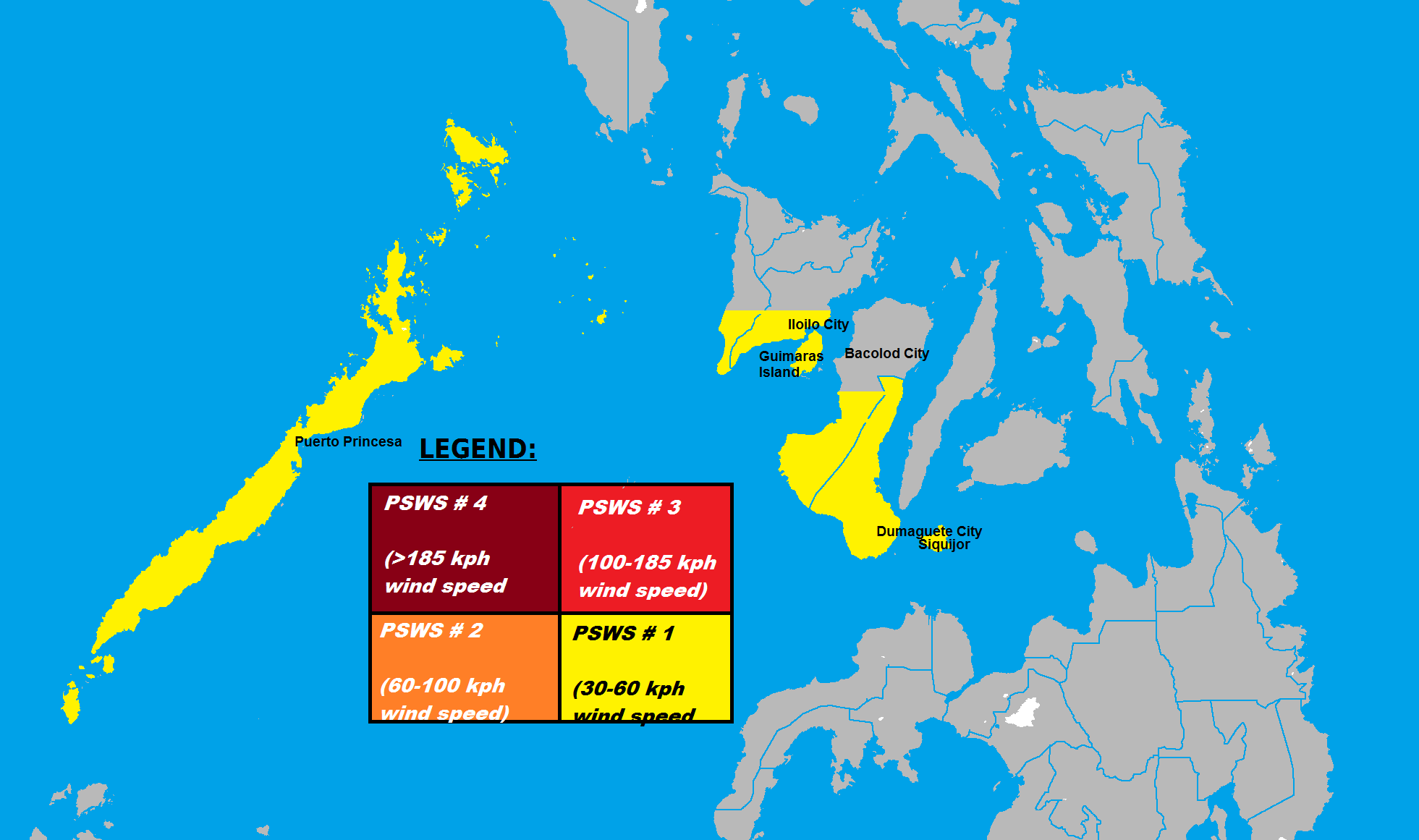 Ambo